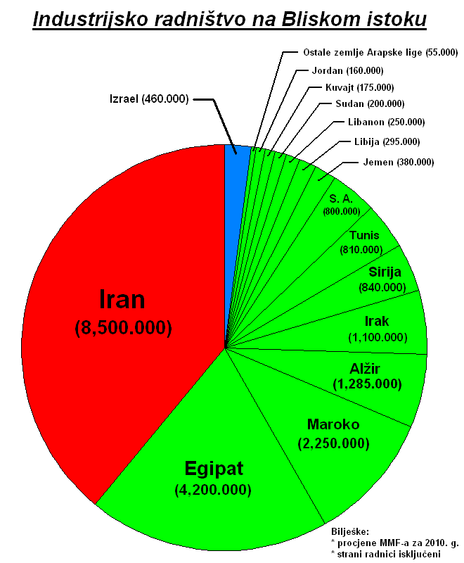 Industrial Workforce in Middle East